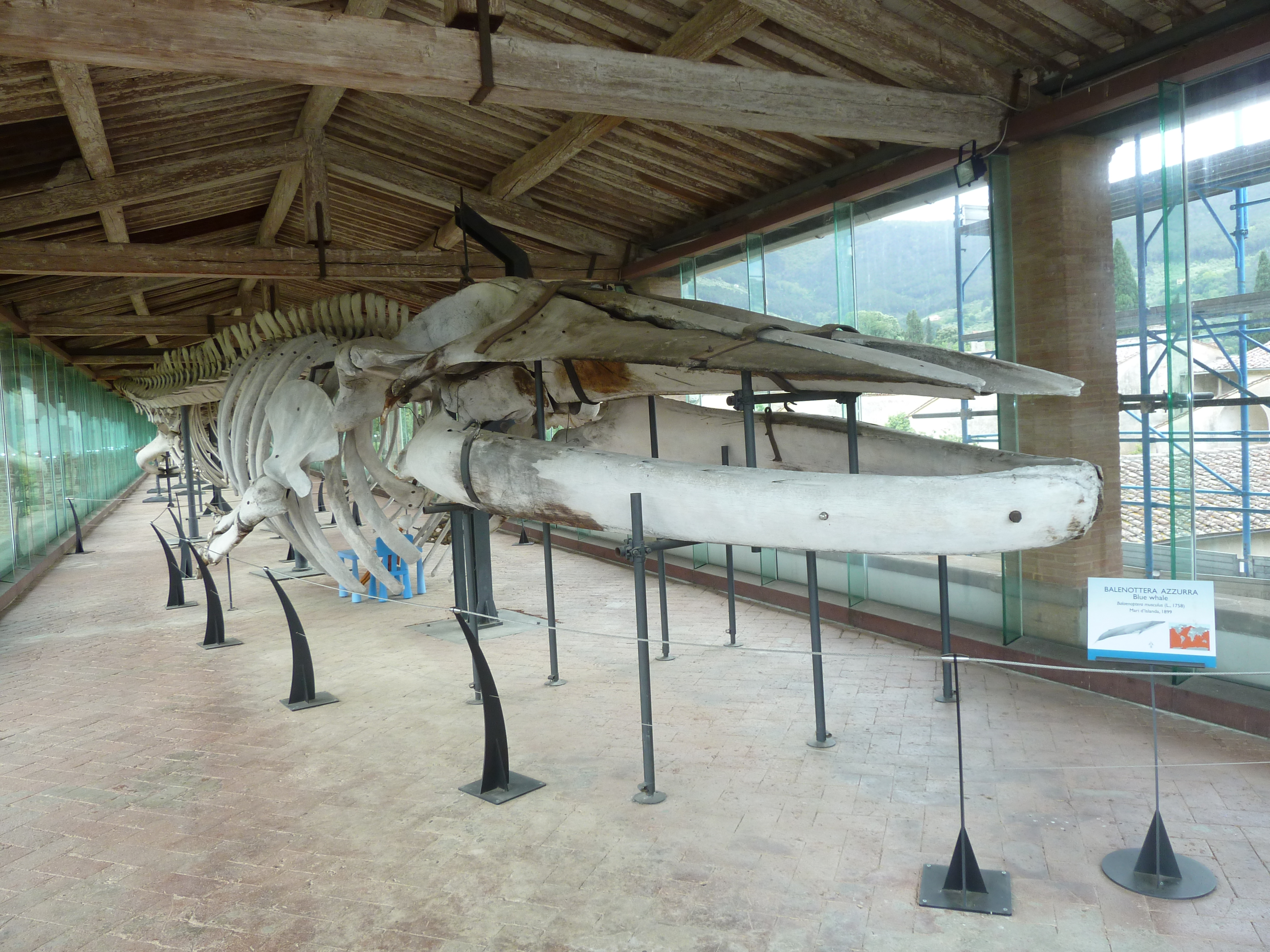 Balaenoptera Musculus Calci